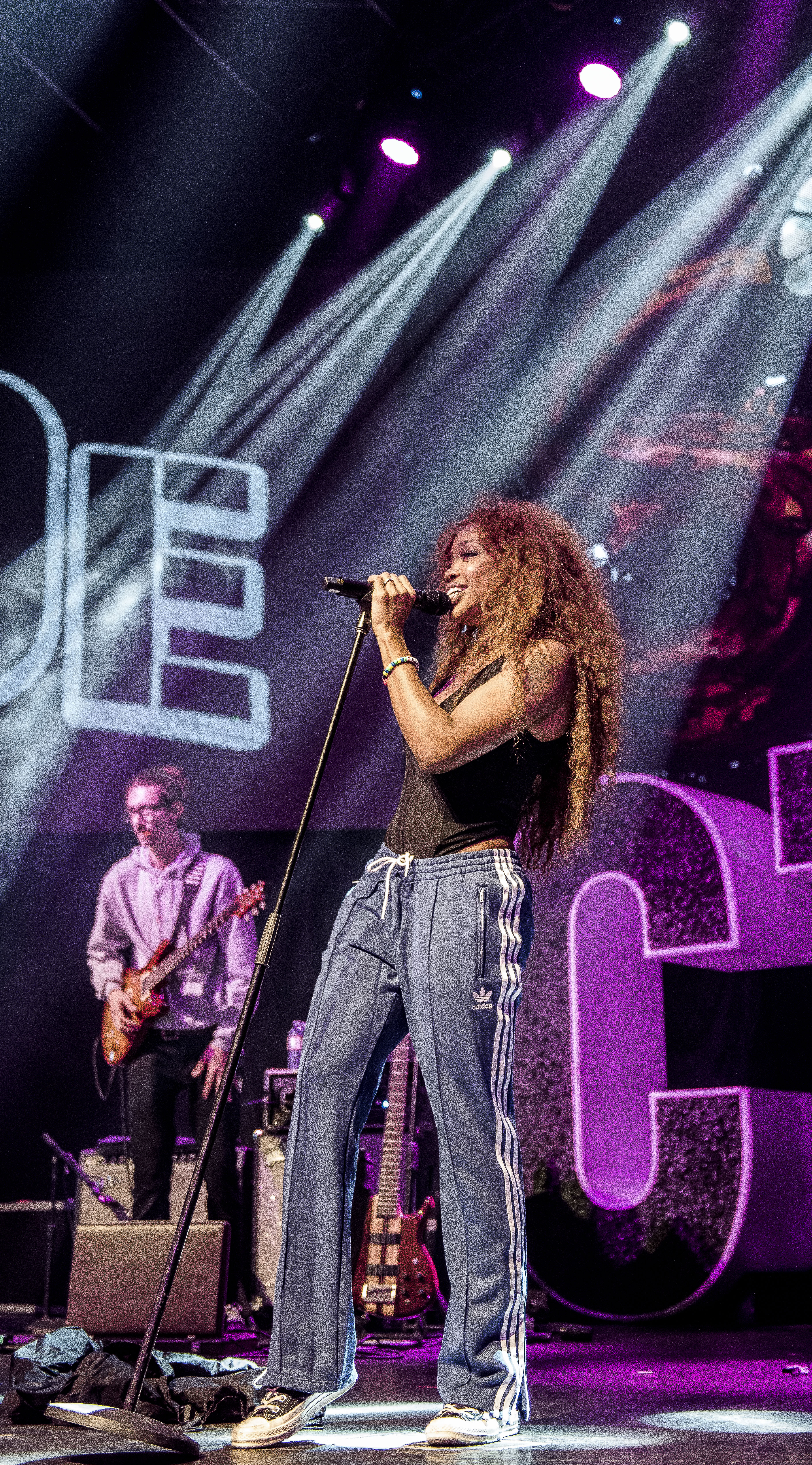 American R&B singer SZA performing at REBEL on August 23, 2017 in Toronto, Canada on Ctrl the Tour.